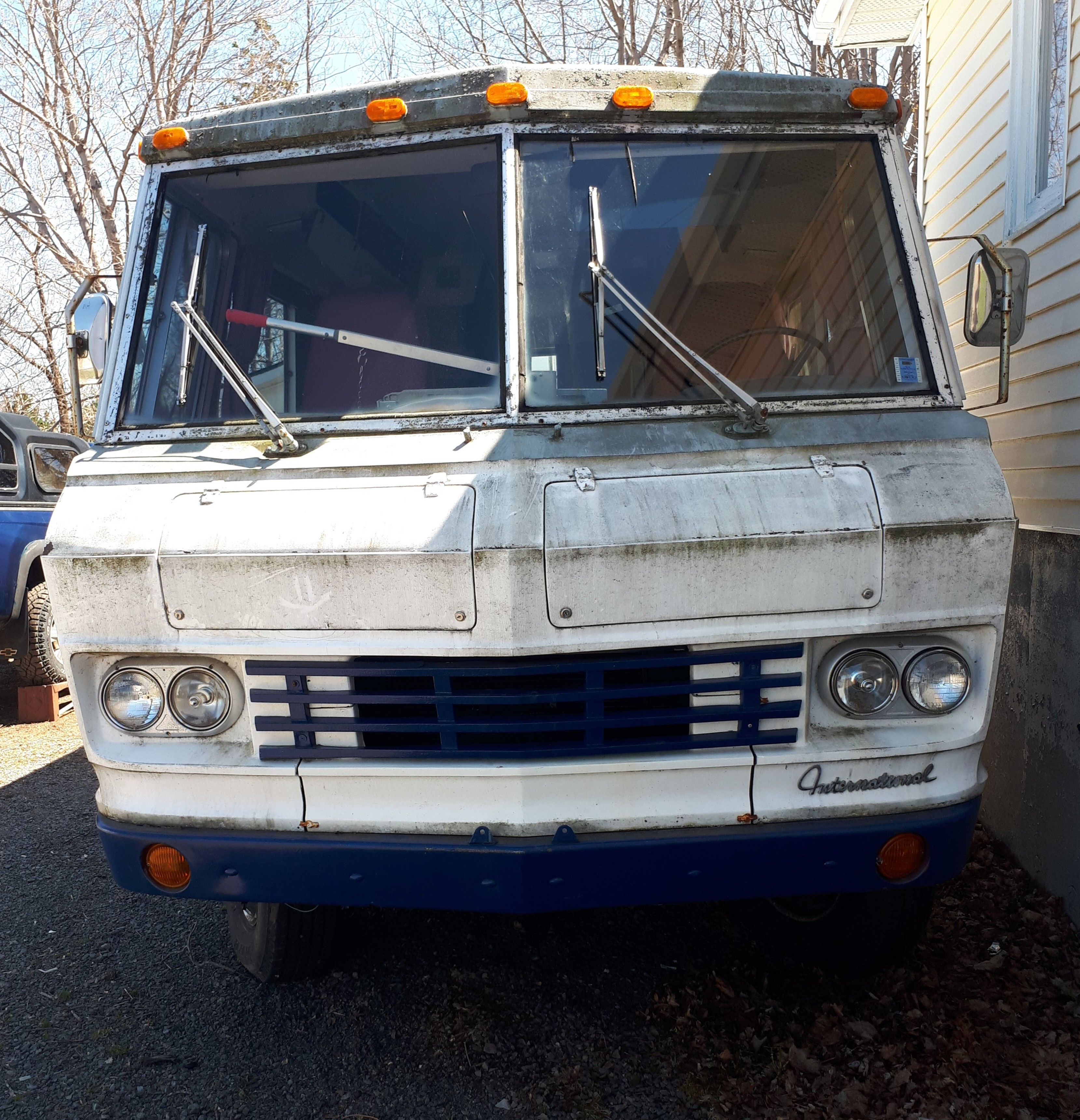 Rek-Vee Motorhome